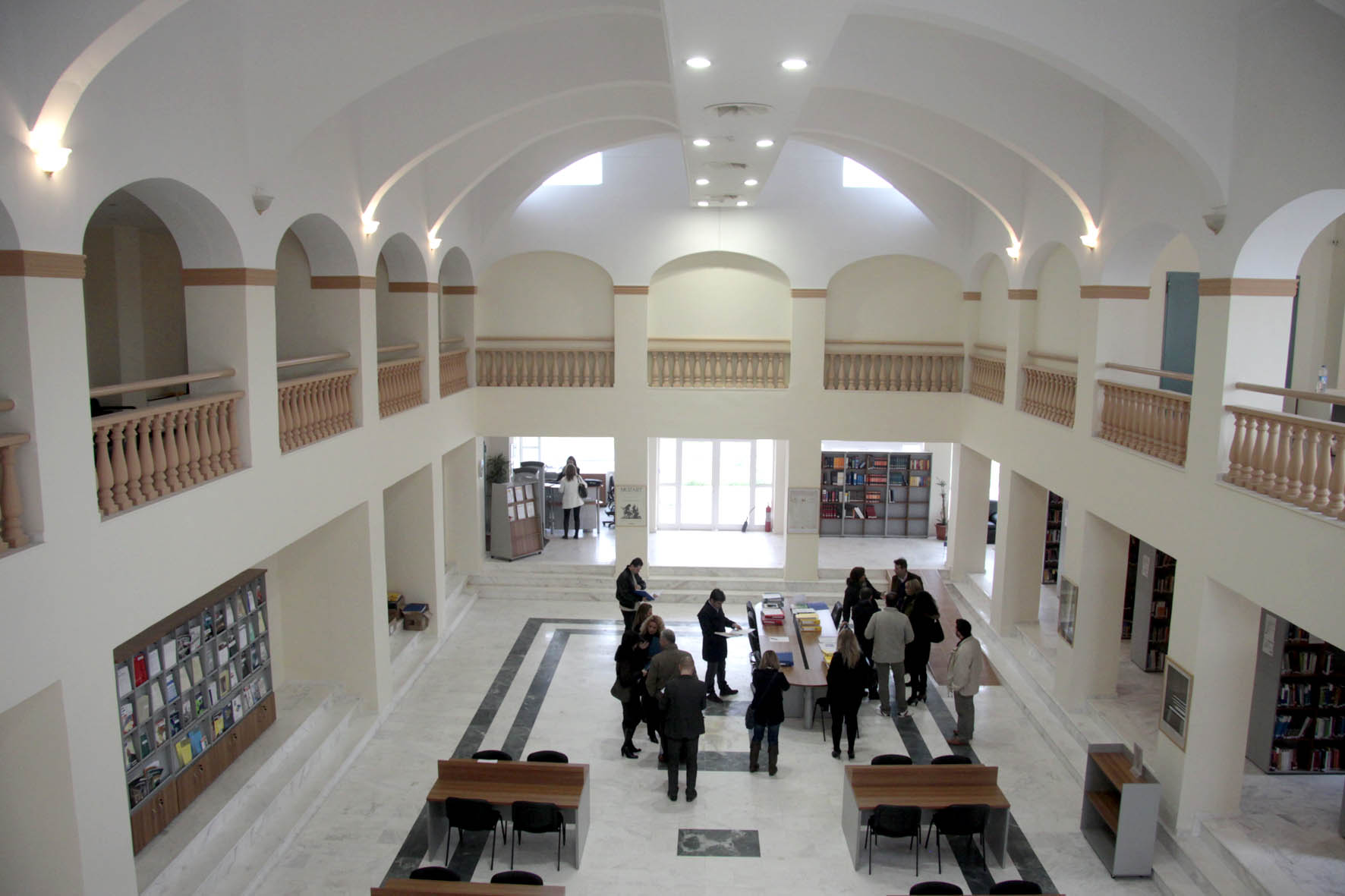 Panoramic photo of the International Hellenic University Library